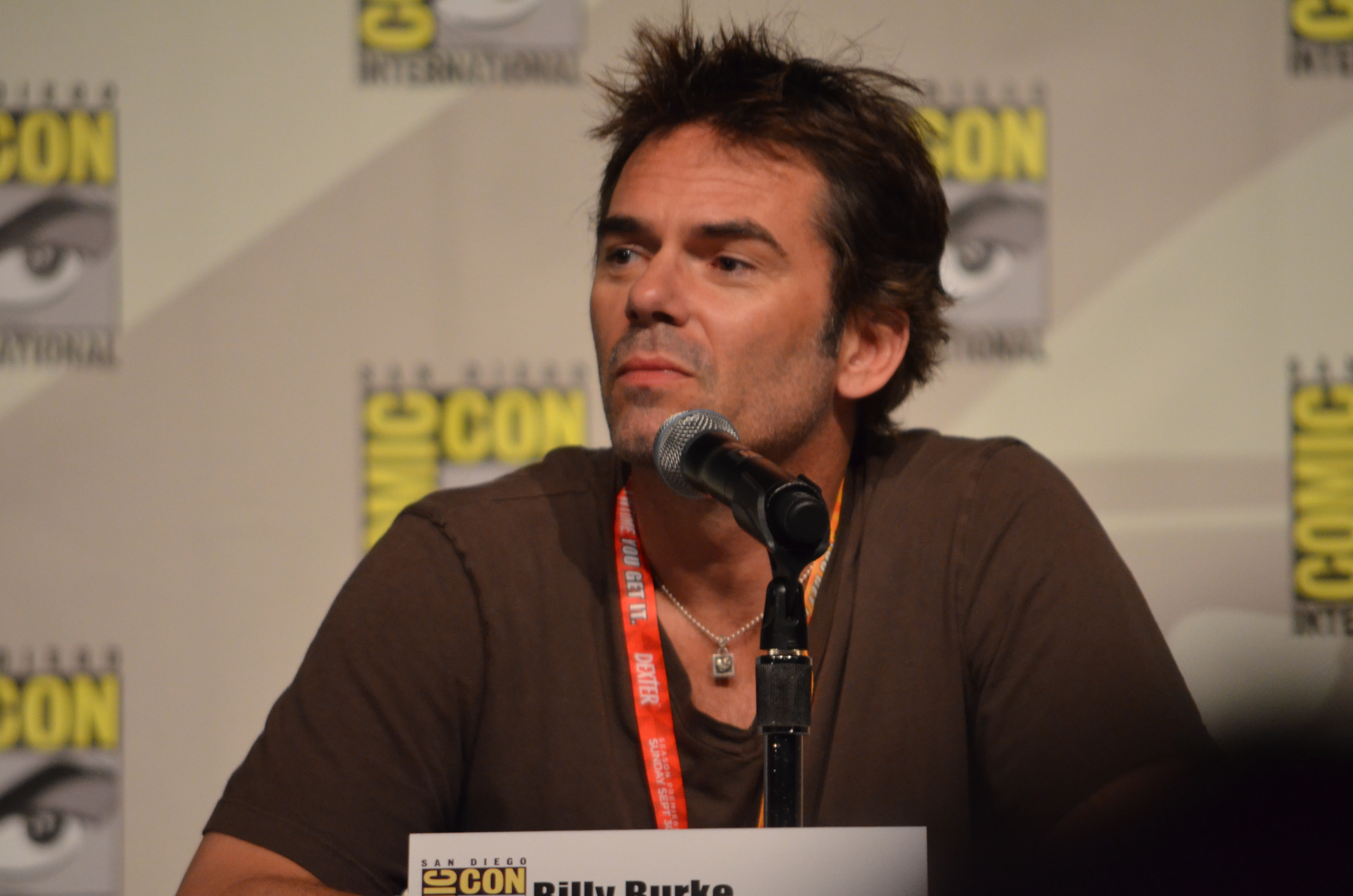 Billy Burke at San Diego International Comic-Con 2012